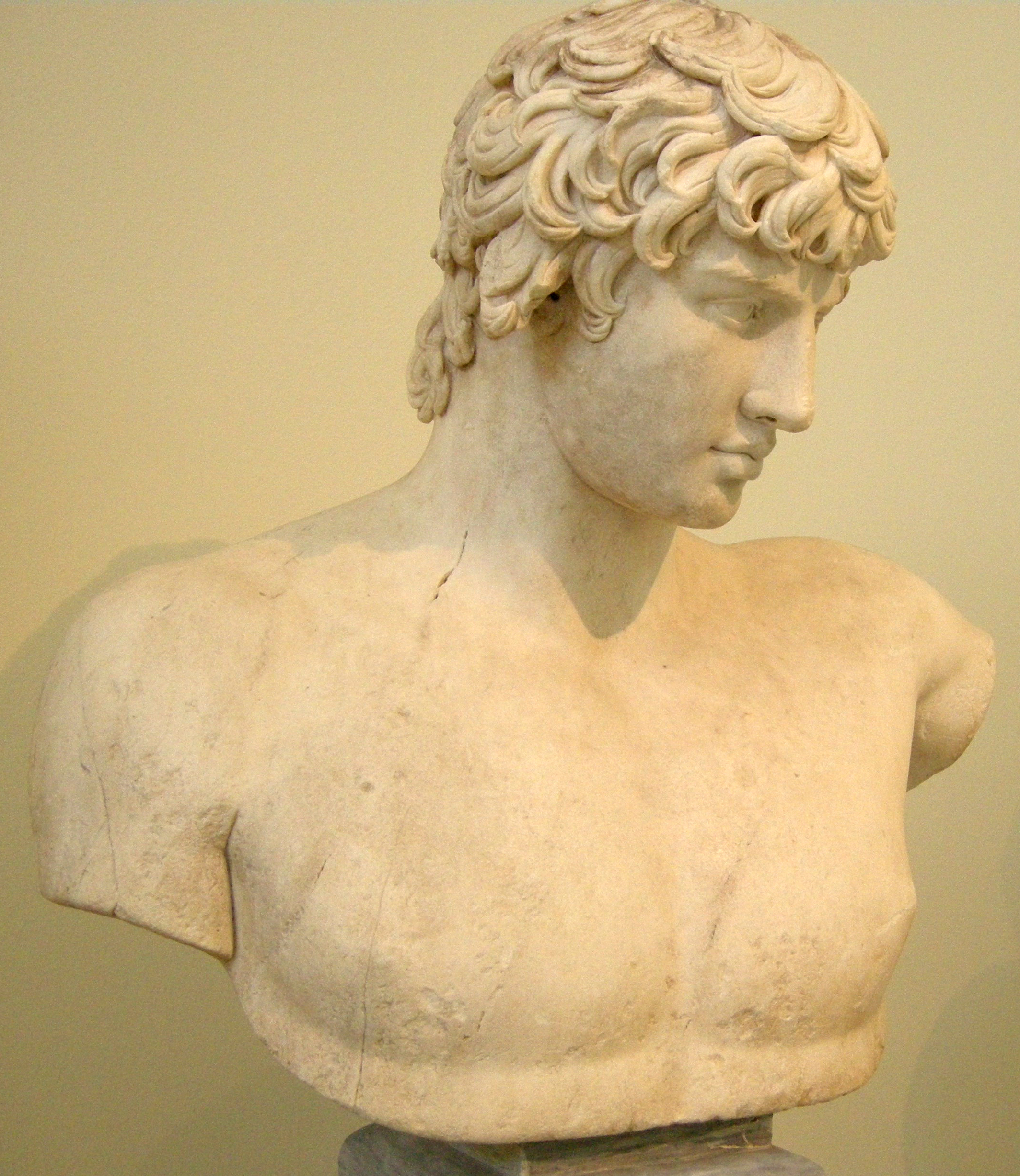 Ancient Roman bust of Antinous. Hadrian age ((AD 117-138),National Archaeological Museum in Athens, Room 32.